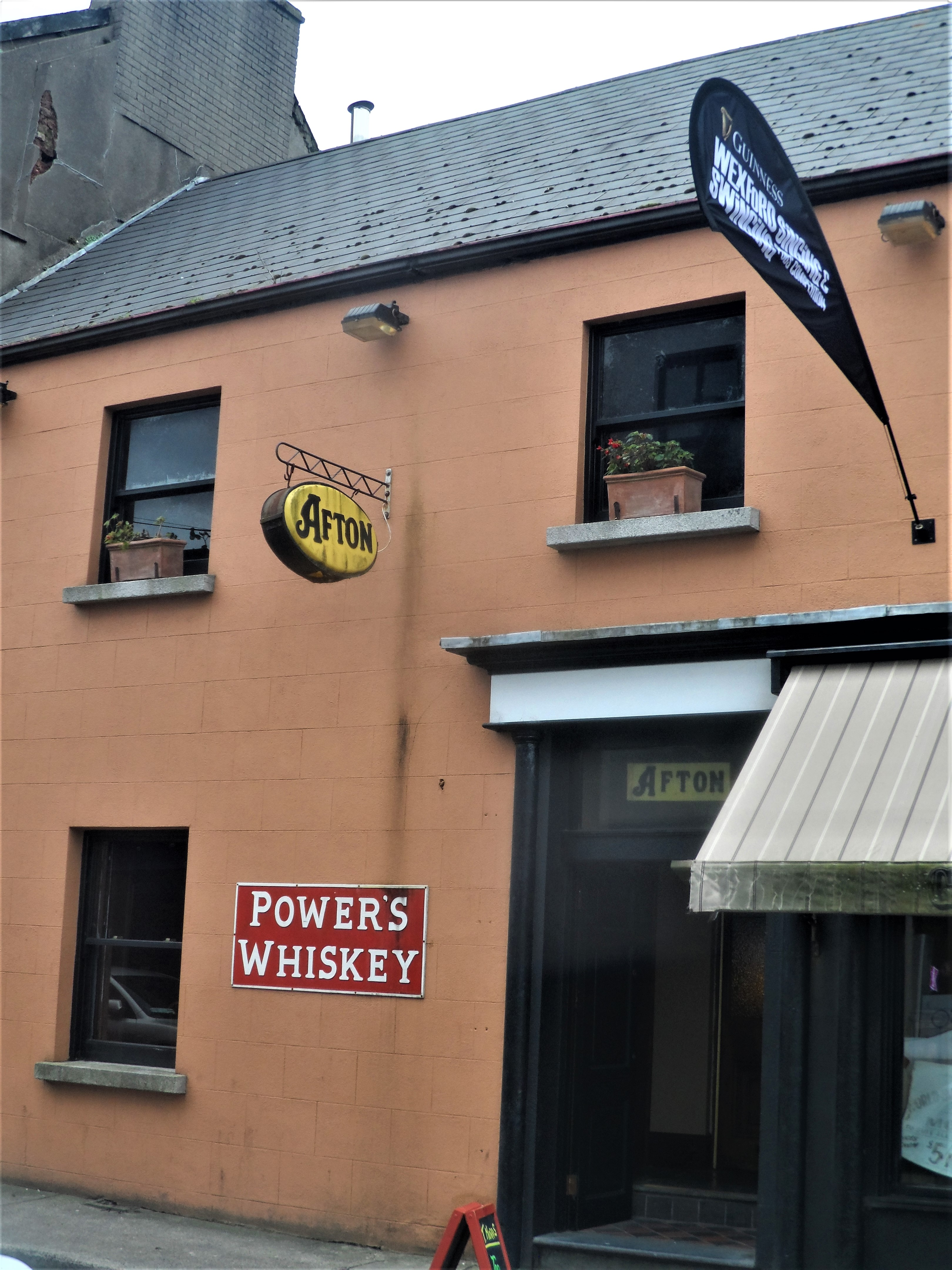 Pub in ireland with signs